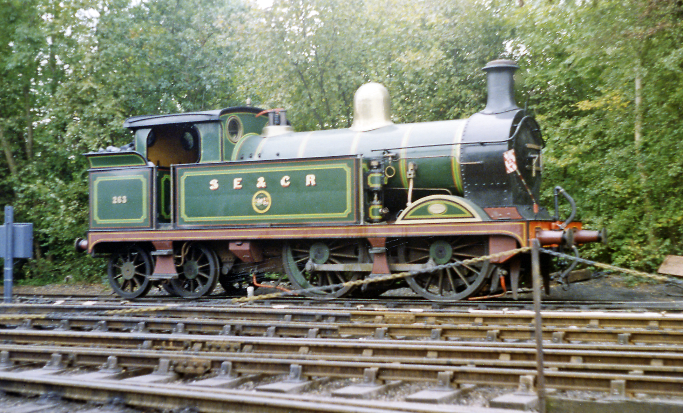 Former SE&CR 0-4-4T at Sheffield Park, Bluebell Railway 1992. No. 263 was built at Ashford in 5/1905 and worked from Slades Green on London suburban services until the 1920s electrification, then (as No. 1263) from Dover on local trains. In World War 2 it came to Nine Elms and worked mainly Waterloo empty stock, then from Stewarts Lane on similar work to/from Victoria; latterly it was on branch-line work in Sussex and Kent and motor-fitted, to be withdrawn as BR No. 31263 in 1/64.